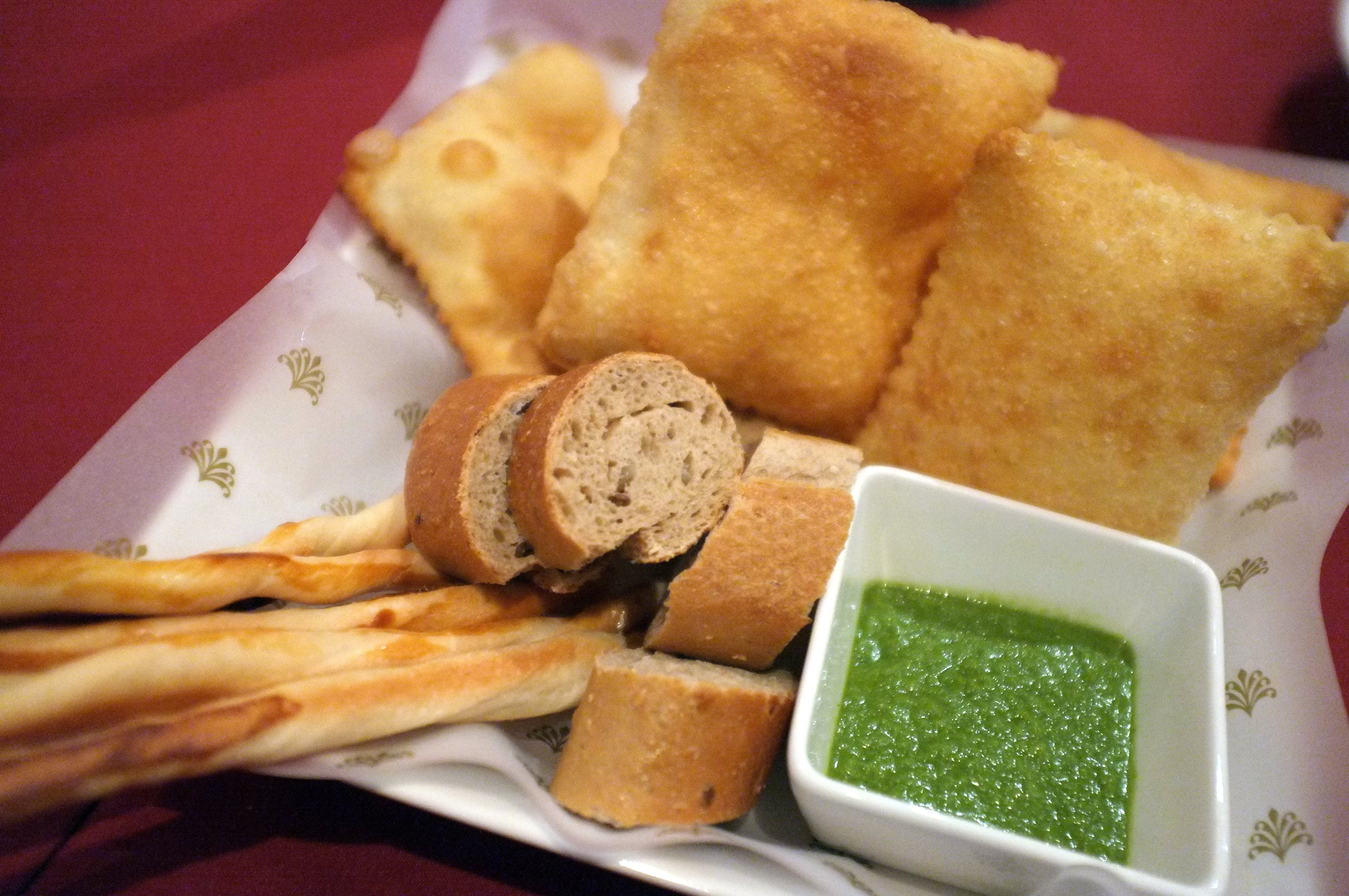 Breads with green dipping sauce